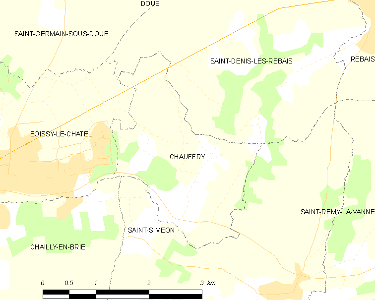 Map of French municipality Chauffry